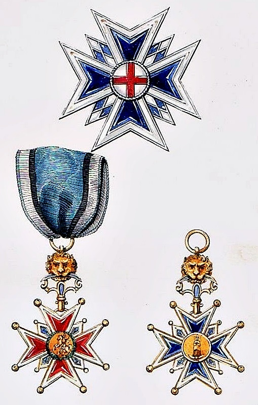 Bayern, Hausritterorden vom Hl. Georg, historische Darstellung um 1840